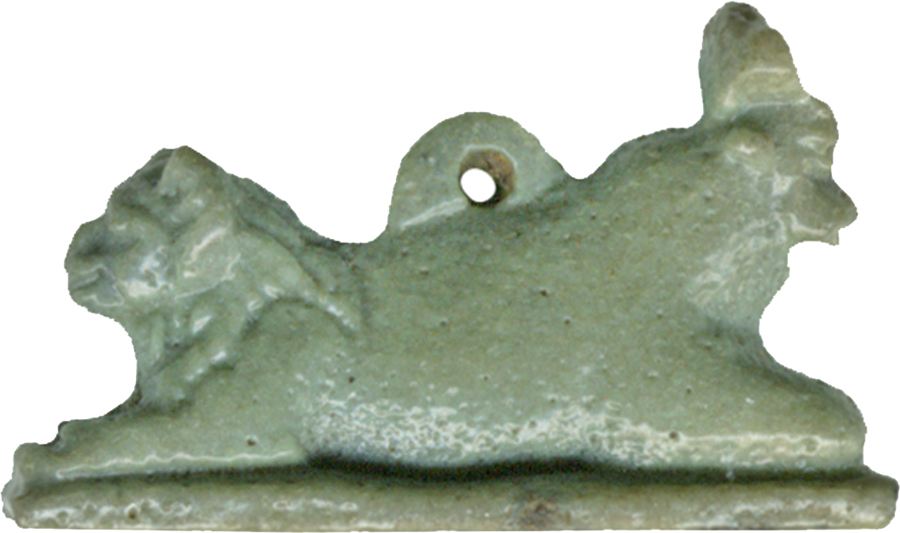 This pendant shows the head of a lion on one side, and the head of a bull with a sun disk on the other side. It may have been a variation of amulets which displays two combined lions who represents the horizon. This variation adds the idea of the holy Apis bull who was particularly worshipped in the Late and Greco-Roman Periods.